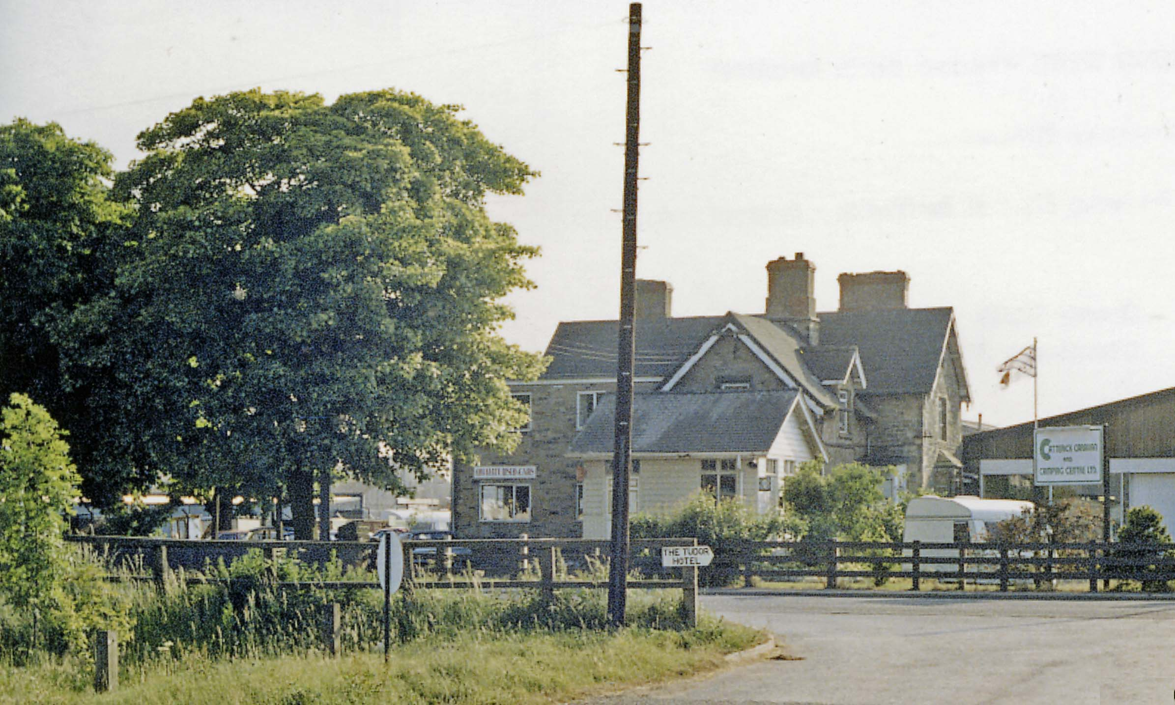 Catterick Bridge station (remains), 1988. View westward, towards Richmond: ex-NER (Darlington) - Eryholme Junction - Richmond line. The station, also the Catterick Military Railway which branched off to the SW, served the vast Military Camp - the largest of the British Army, with 12,000 men - and therefore important, even after World War Two, the branch seeing regular Troop and Leave trains. However, it and the line to Richmond were closed to passengers from 3/3/69 and to goods from 9/2/70. The track, now a roadway, was lifted in October 1970. (The Goods Yard was the scene of a major explosion of ammunition in February 1944).